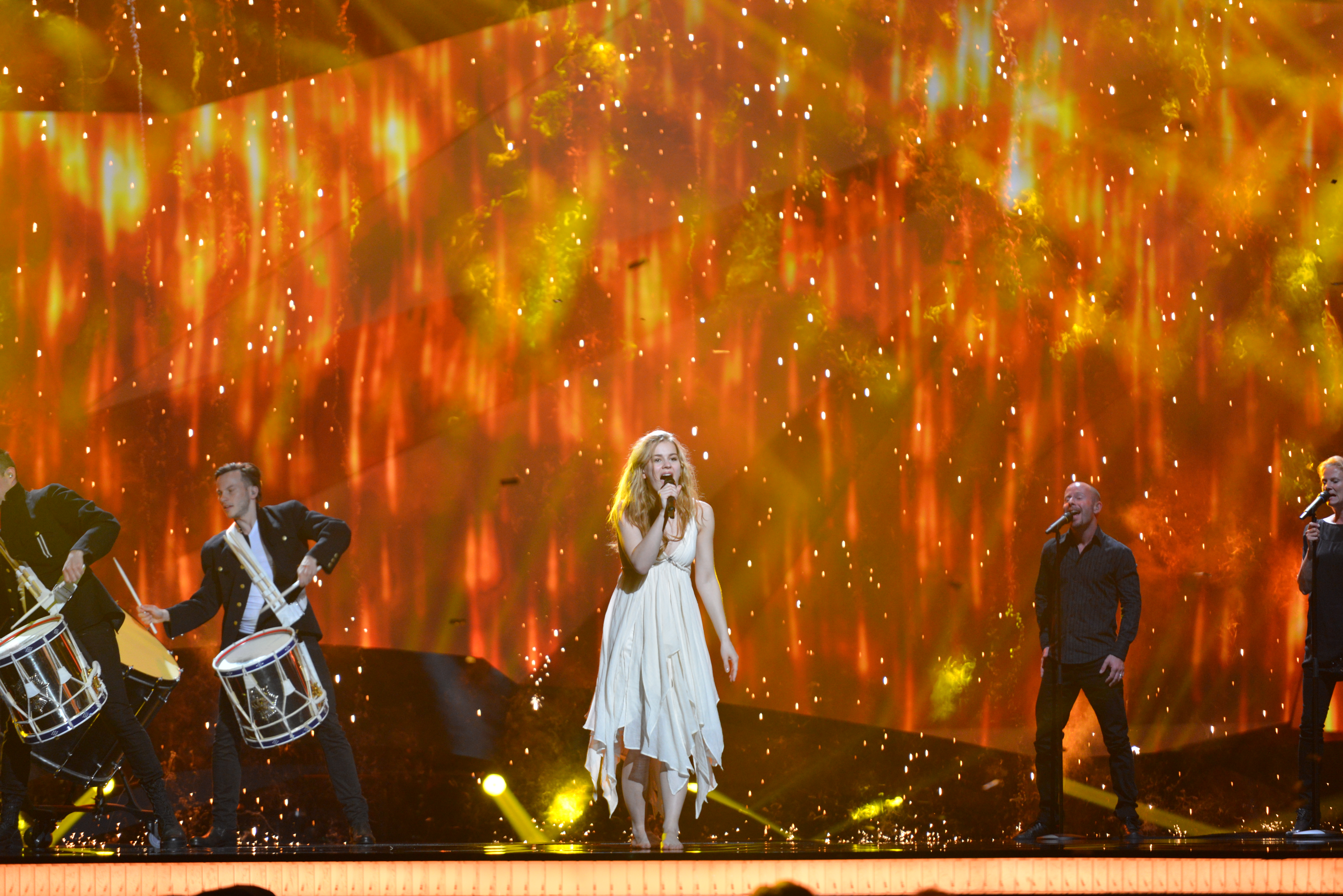 Emmelie de Forest representing Denmark with the song "Only Teardrops" during the first dress rehearsal of the final of the Eurovision Song Contest 2013 in Malmö. (Help translate this text)